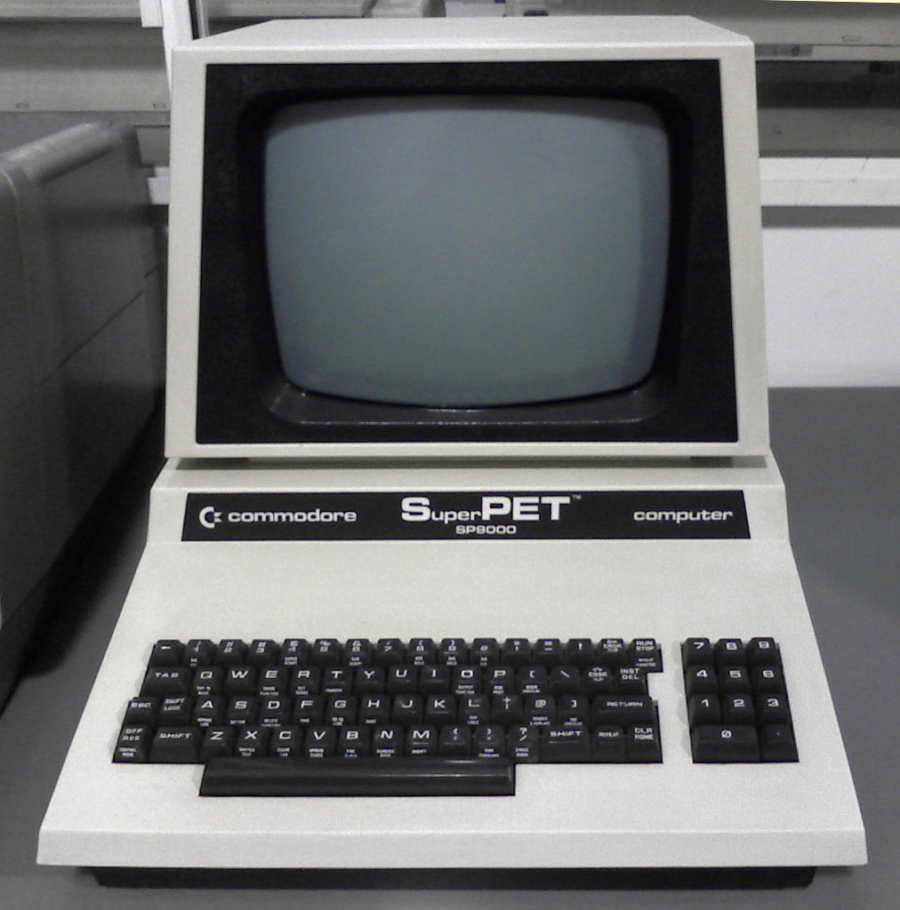 Commodore SuperPET SP9000. Taken by Thomas Conté at the RE-PC computer museum (part of RE-PC in Seattle).